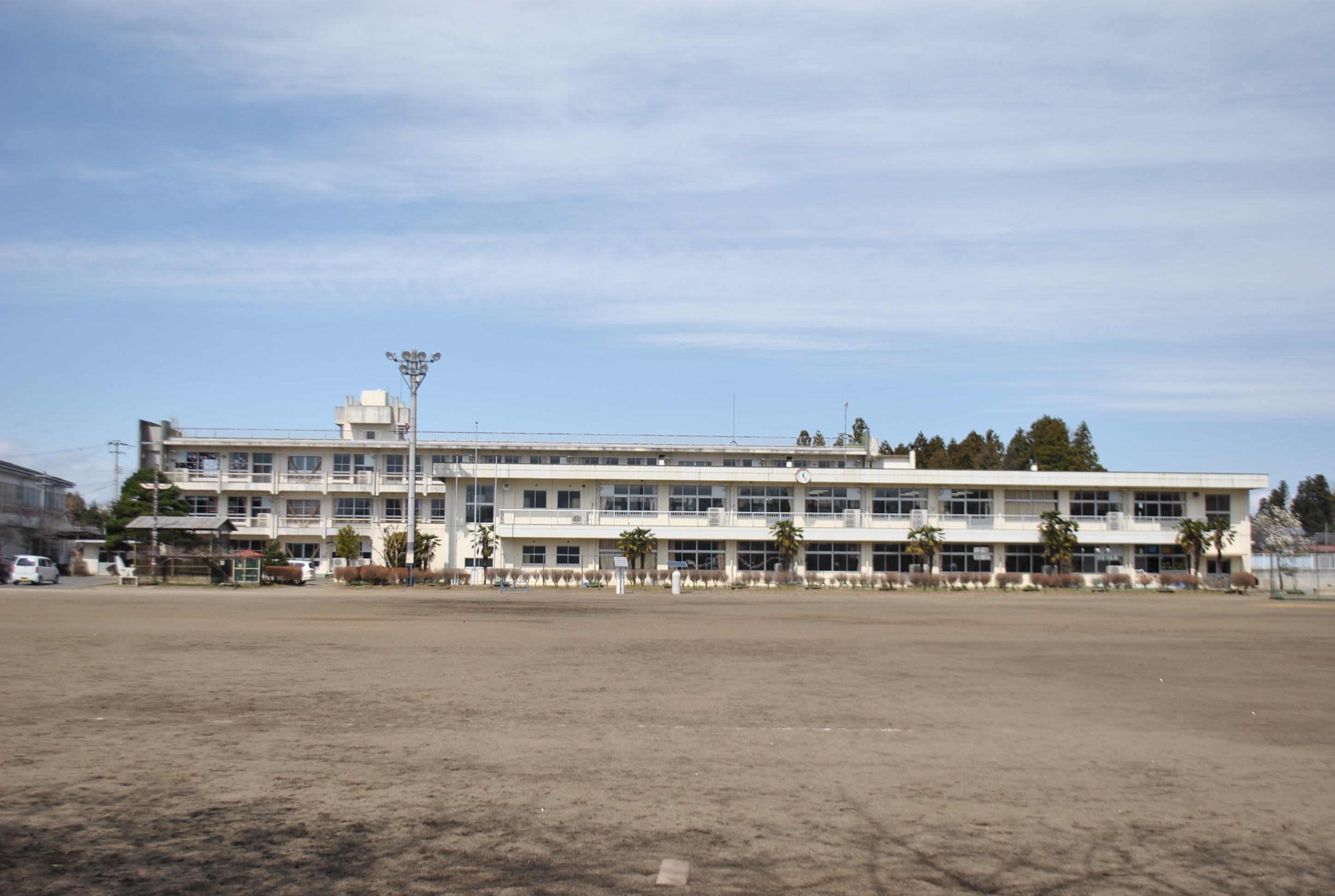 Nakahata Elementary School in Yabuki Town, Fukushima Pref., Japan.